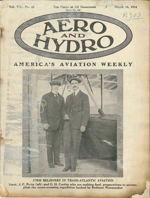 Glenn Curtiss and John Cyril Porte in Aero and Hydro magazine